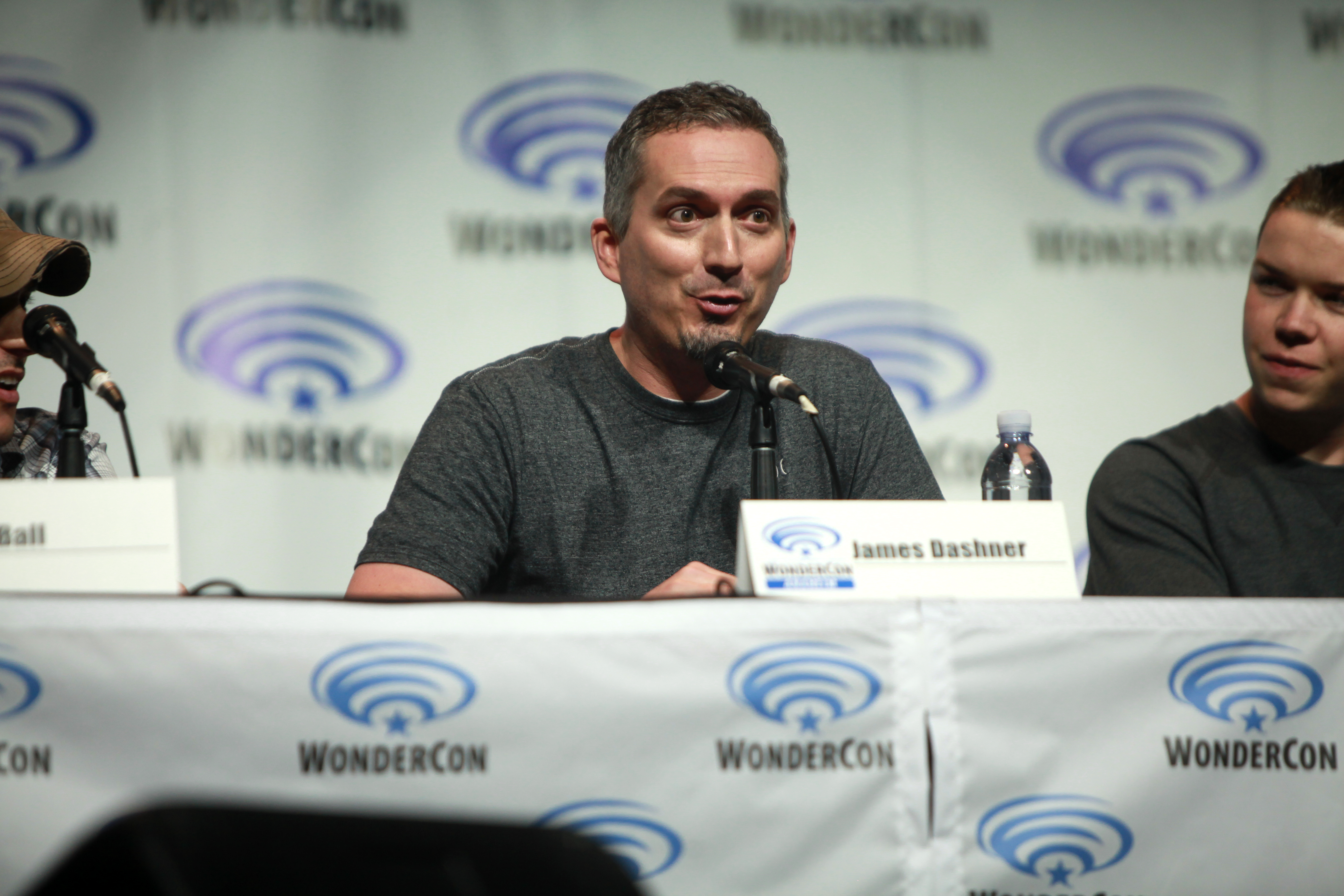 James Dashner speaking at the 2014 WonderCon, for "The Maze Runner", at the Anaheim Convention Center in Anaheim, California.